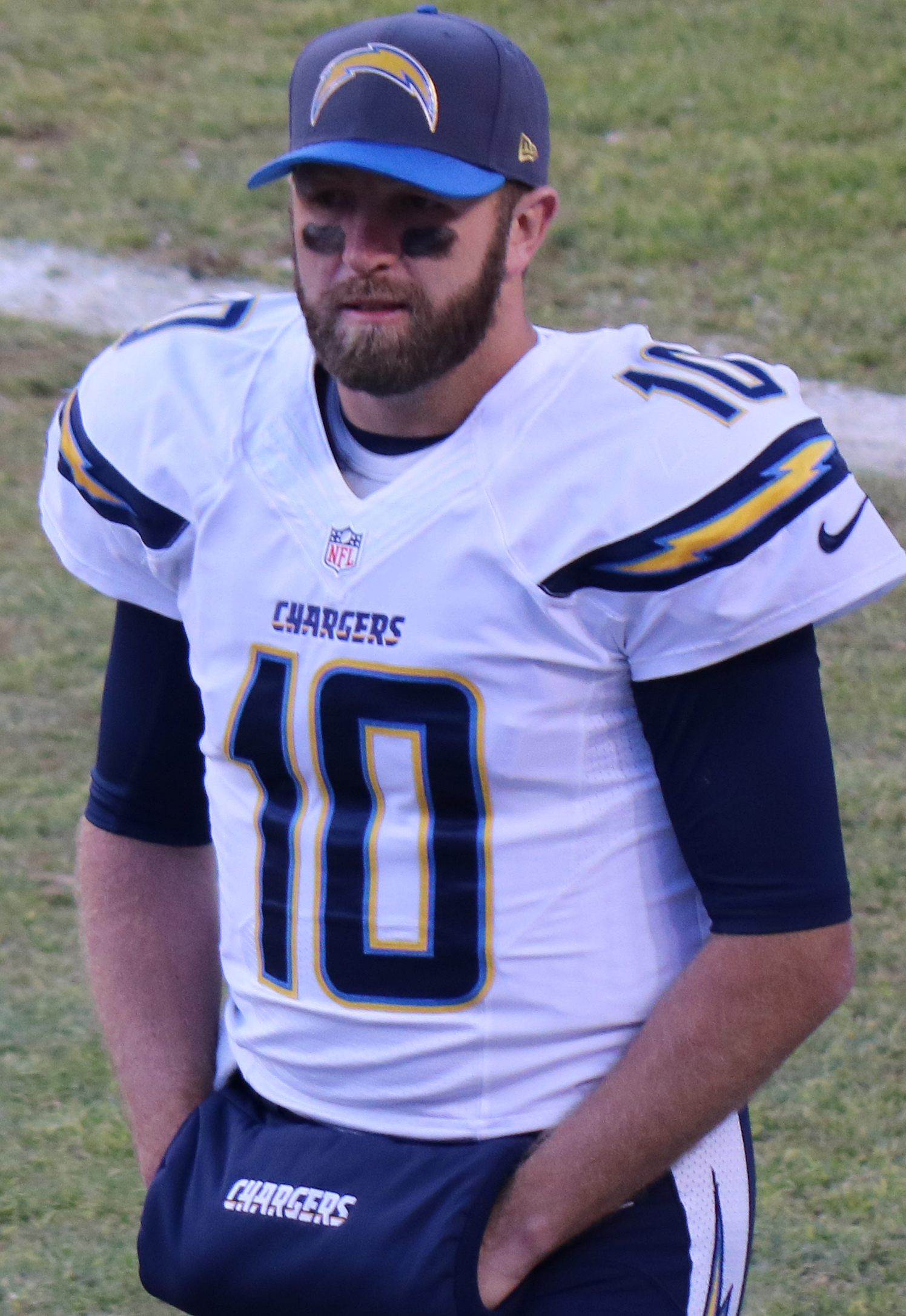 Kellen Clemens, a player on the National Football League.